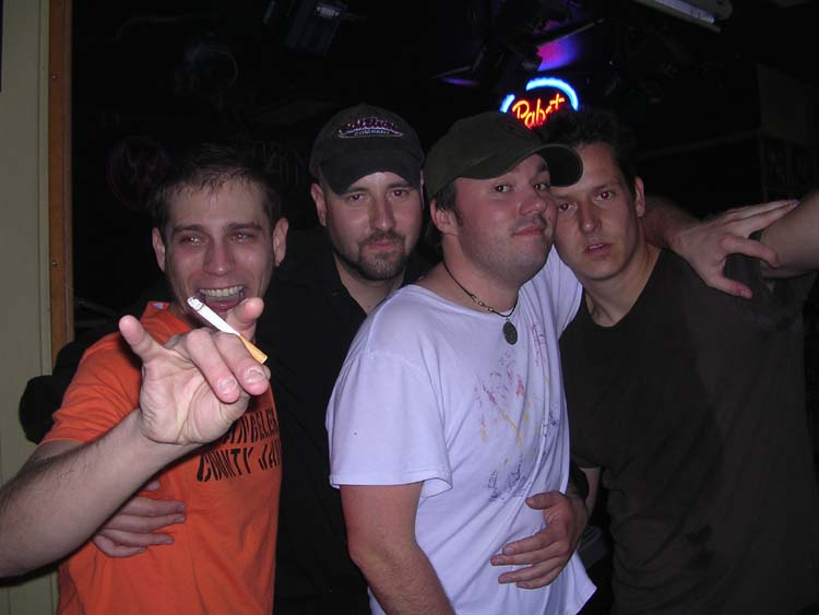 Photograph of the members of the band Katsu at The Lion's Den, State College, Pennsylvania, taken by Olessi on 5/14/06, after performance on 5/13/06.